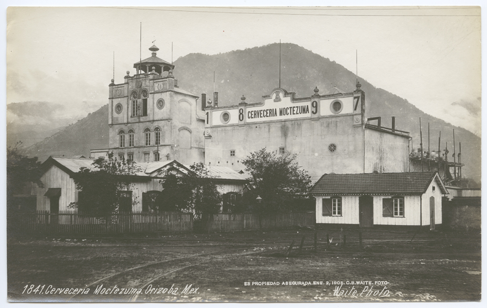 Title: Cerveceria Moctezuma. Orizoba [sic]. Mexico Creator: Waite, C. B. (Charles Betts), 1861-1927 Date: 1905 Part Of: Mexico Place: Orizaba, Veracruz-Llave, Mexico Physical Description: 1 photographic print: gelatin silver; 12.6 x 20.2 cm File: ag1983_0281_1841_cerveceria_moctezuma_opt.jpg Rights: Please cite DeGolyer Library, Southern Methodist University when using this file. A high-resolution version of this file may be obtained for a fee. For details see the web page. For other information, . For more information and to view the image in high resolution, see: View the Mexico: Photographs, Manuscripts, and Imprints Collection